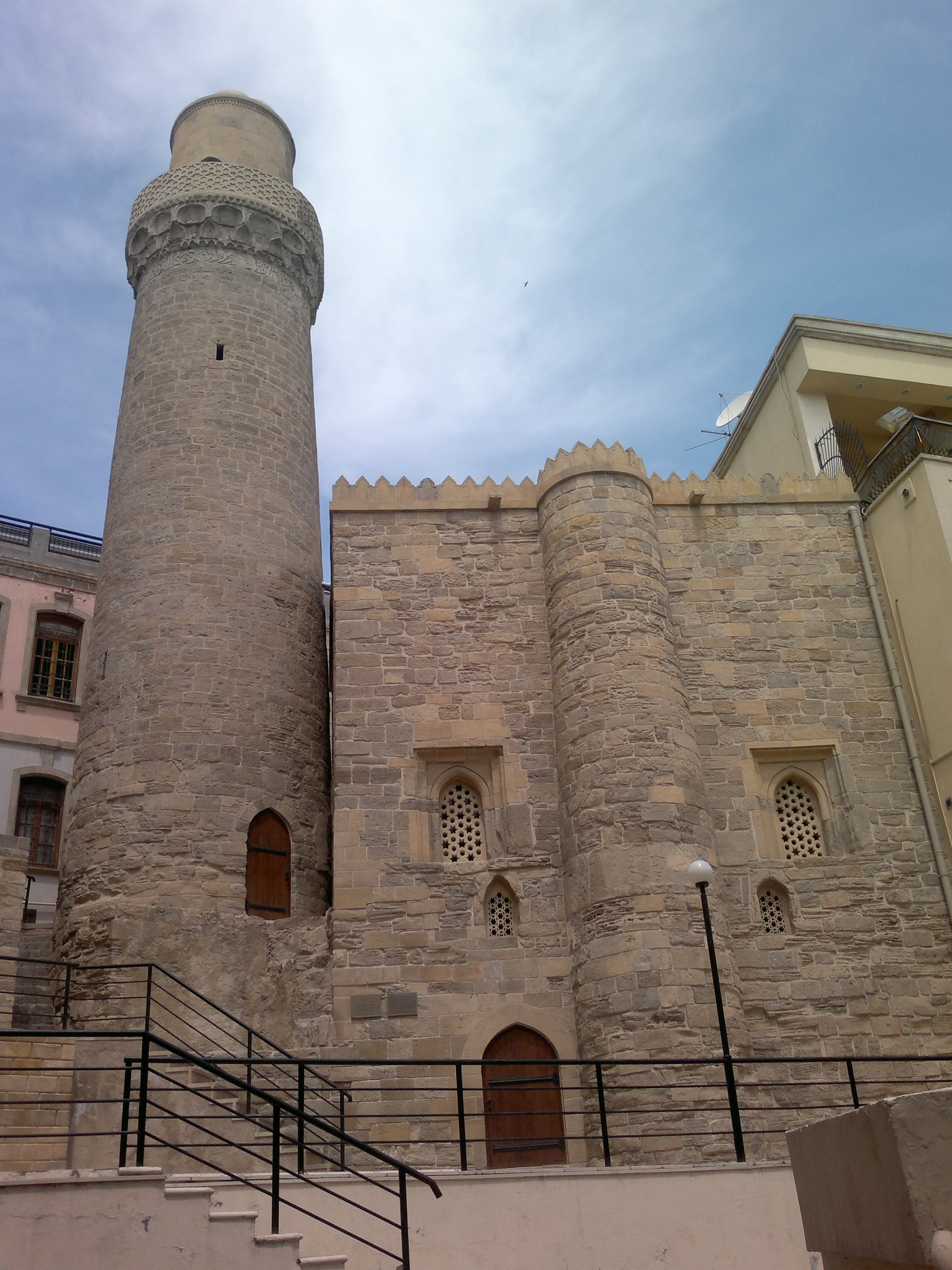 Muhammad Mosque in Baku, Azerbaijan. Built in 1078/79.